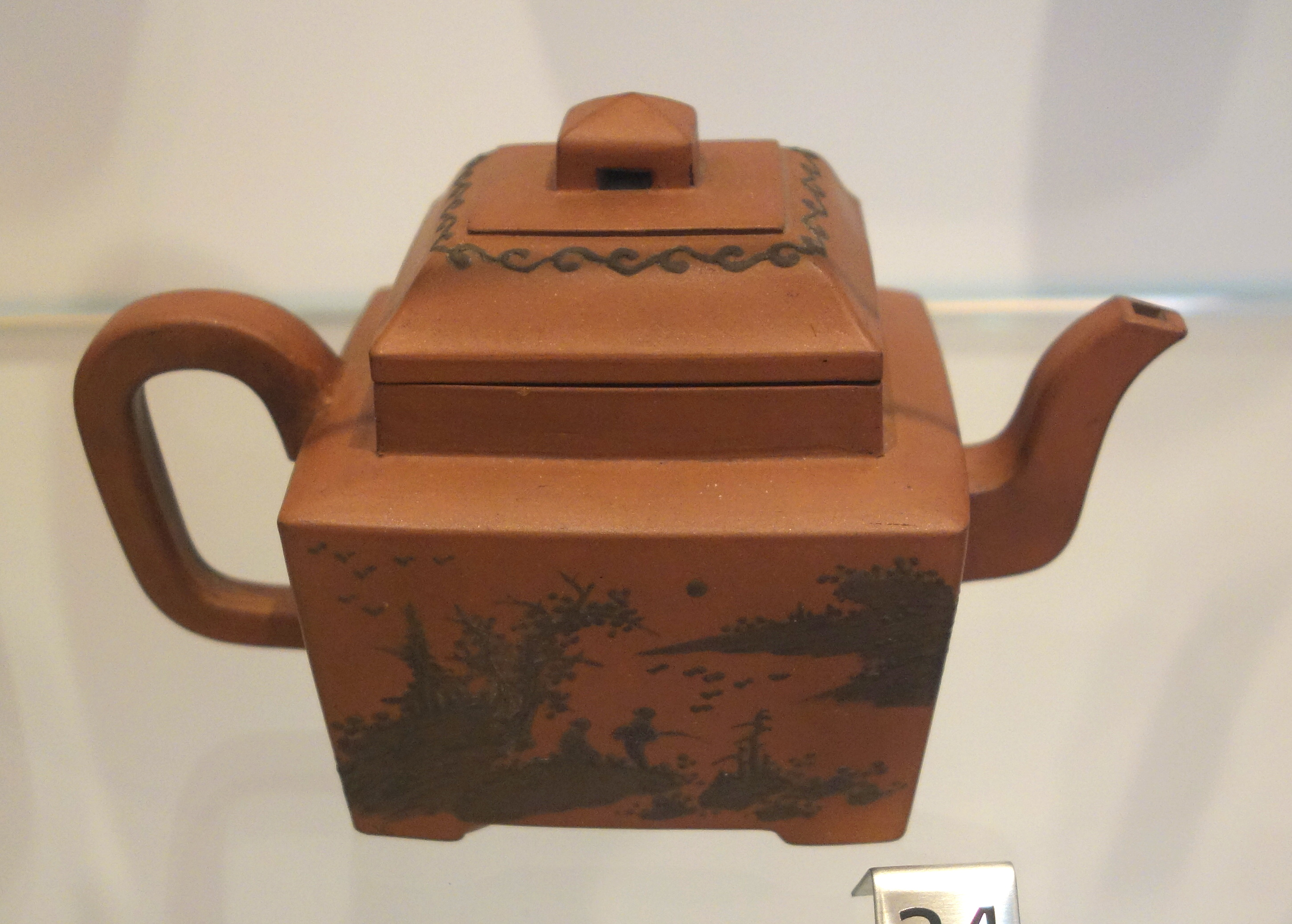 Exhibit in the Royal Ontario Museum, Toronto, Ontario, Canada. This work is old enough so that it is in the public domain.